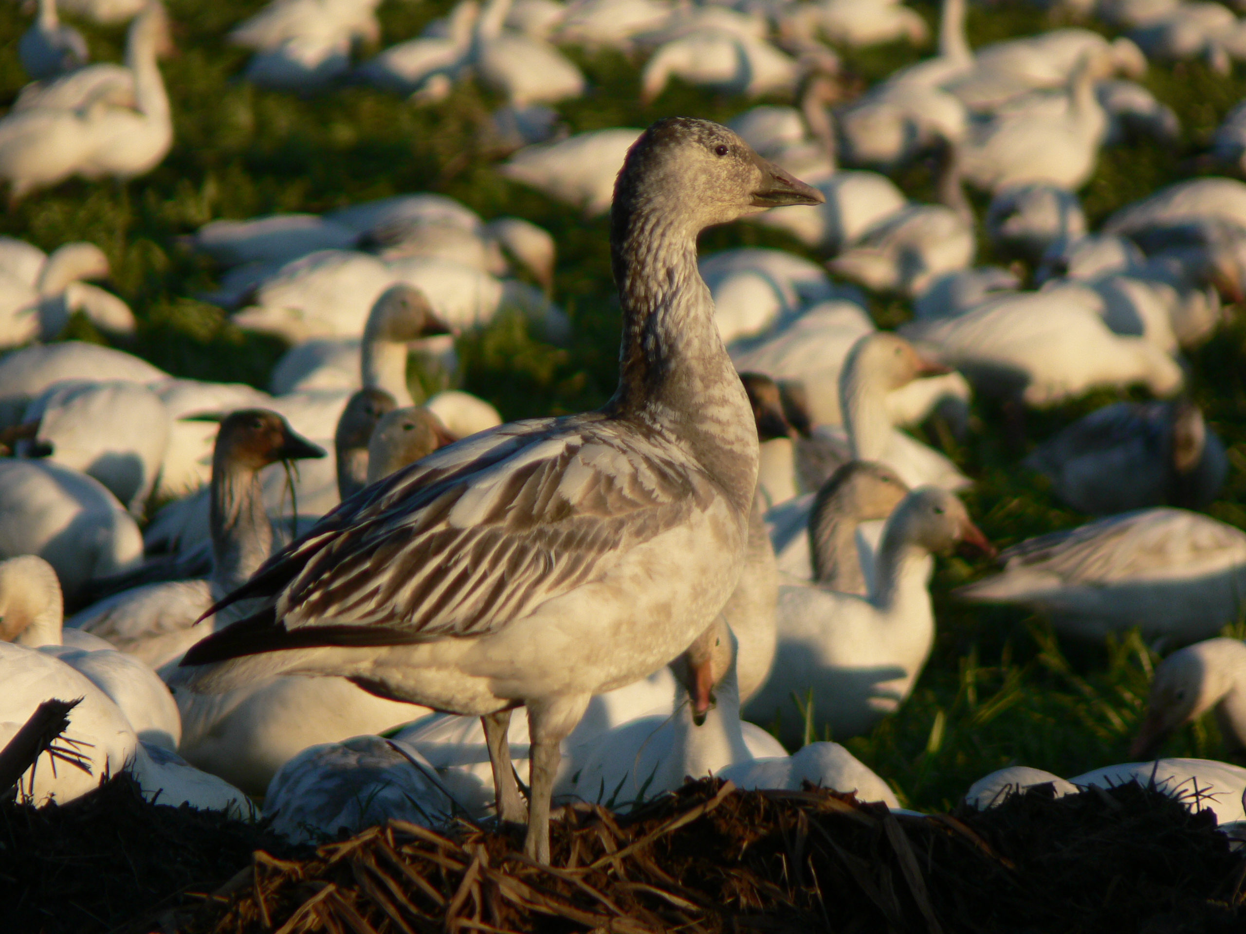 Lesser Snow Goose